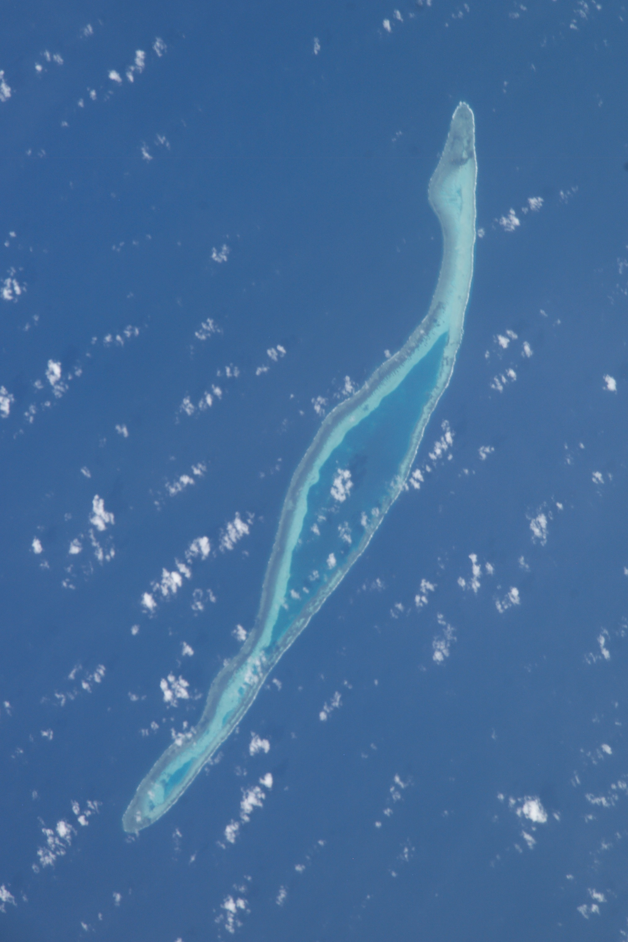 Barque Canada Reef is an atoll in Spratly Islands